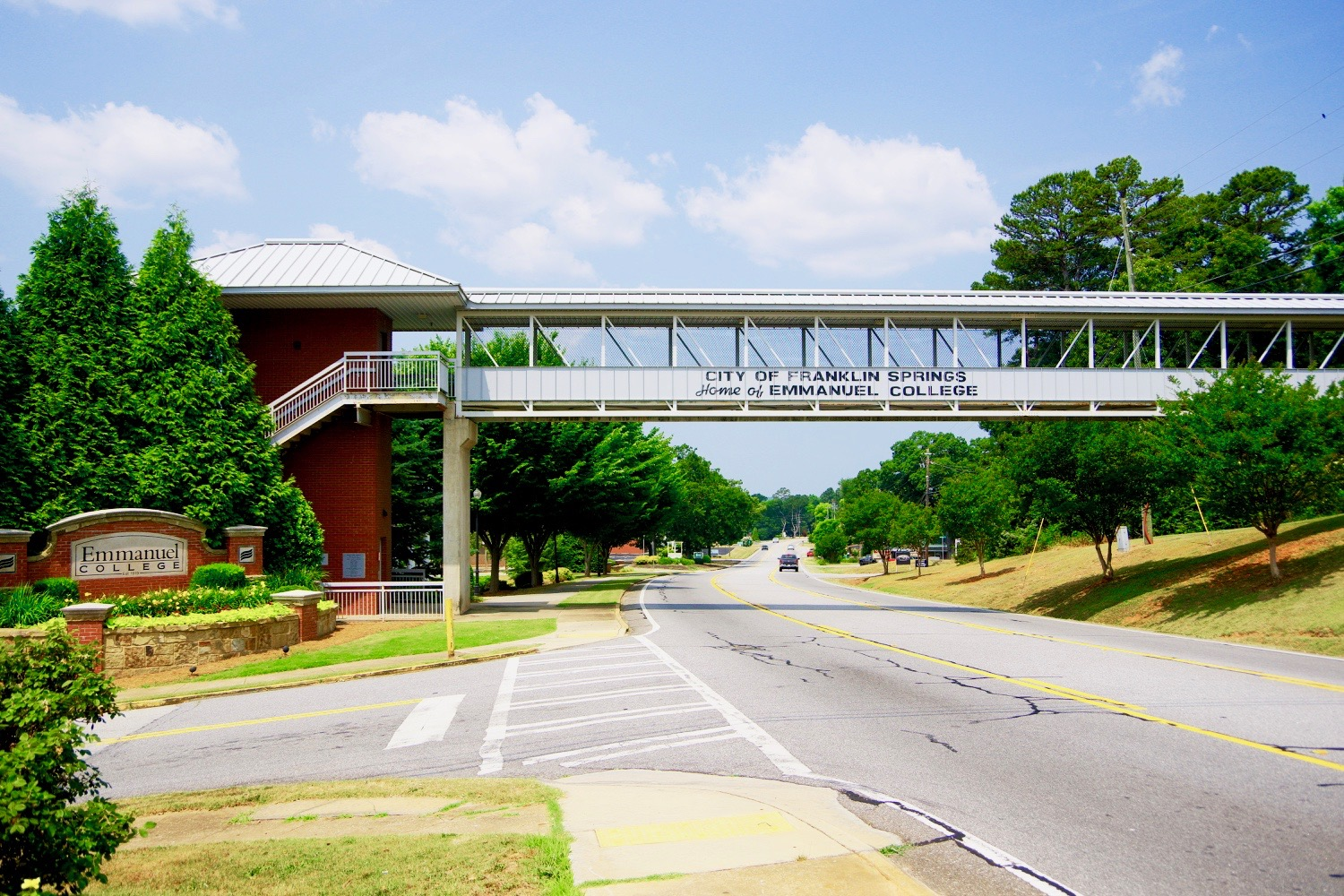 Pedestrian bridge over U.S. Route 29 in Franklin Springs, Georgia, United States, with the entrance to Emmanuel College on the left.